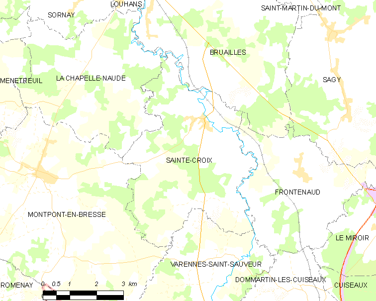 Map of French municipality